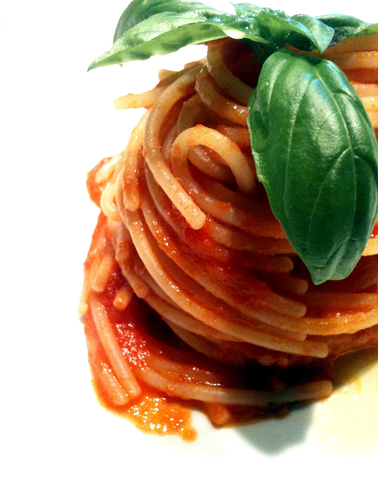 Spaghetti di Gragnano al pomodoro fresco